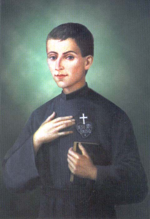 portrait of Blessed Pio Campodelli